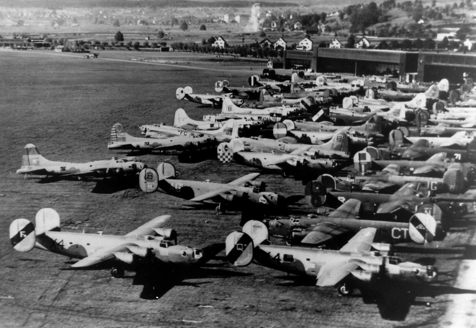 Dübendorf airfield, interned USAF bombers, most of them from emergency landing